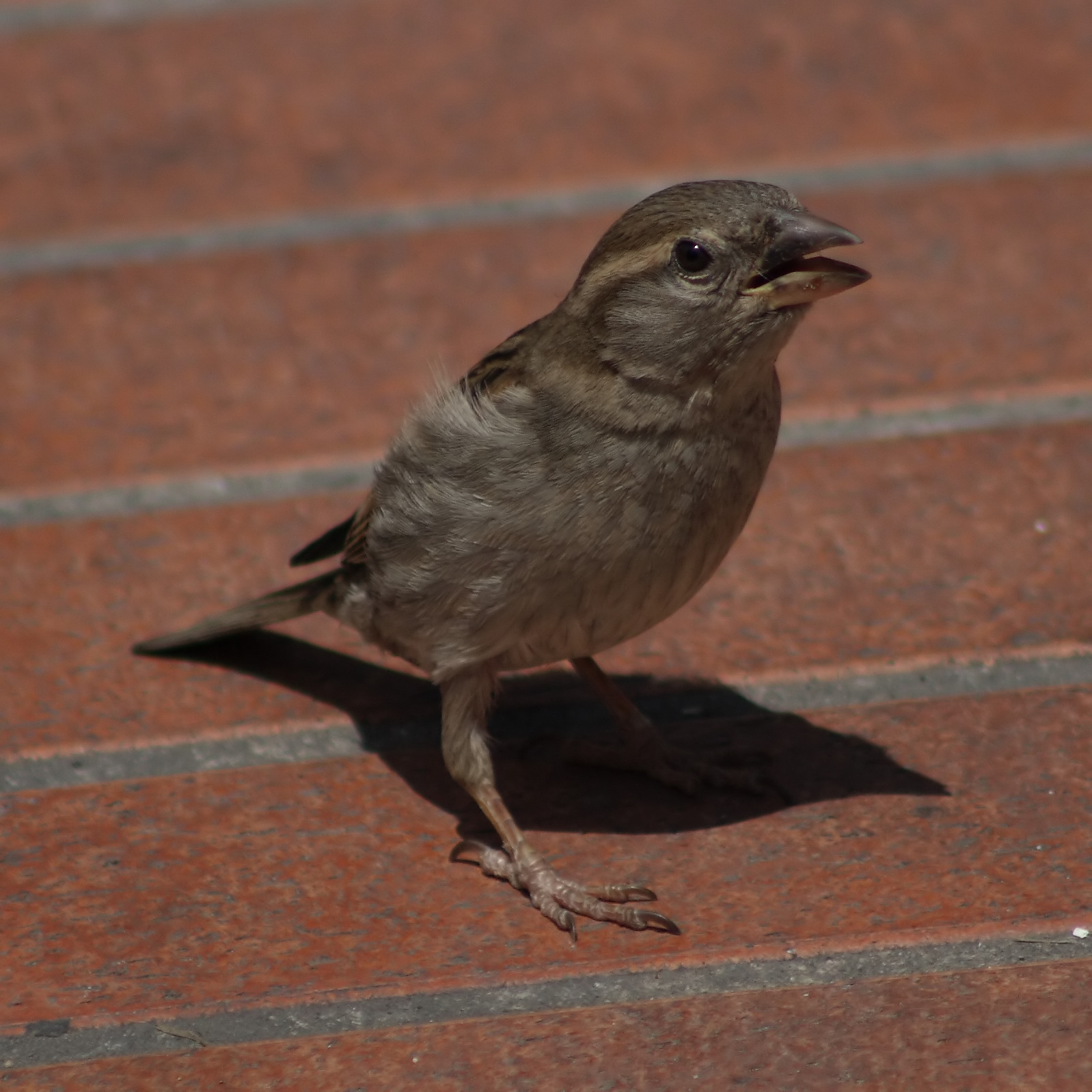 Female Italian Sparrow (Passer italiae). Montecatini Terme, Tuscany.